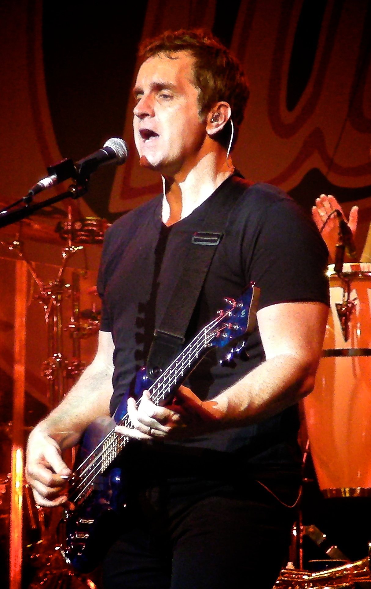 Portrait of Jason Scheff, performing bass guitar and vocals, for Chicago, located at the Stiefel Theatre in Salina, Kansas